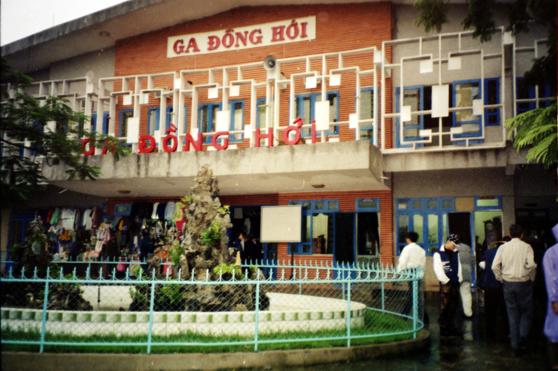 Train Station, Dong Hoi, Vietnam